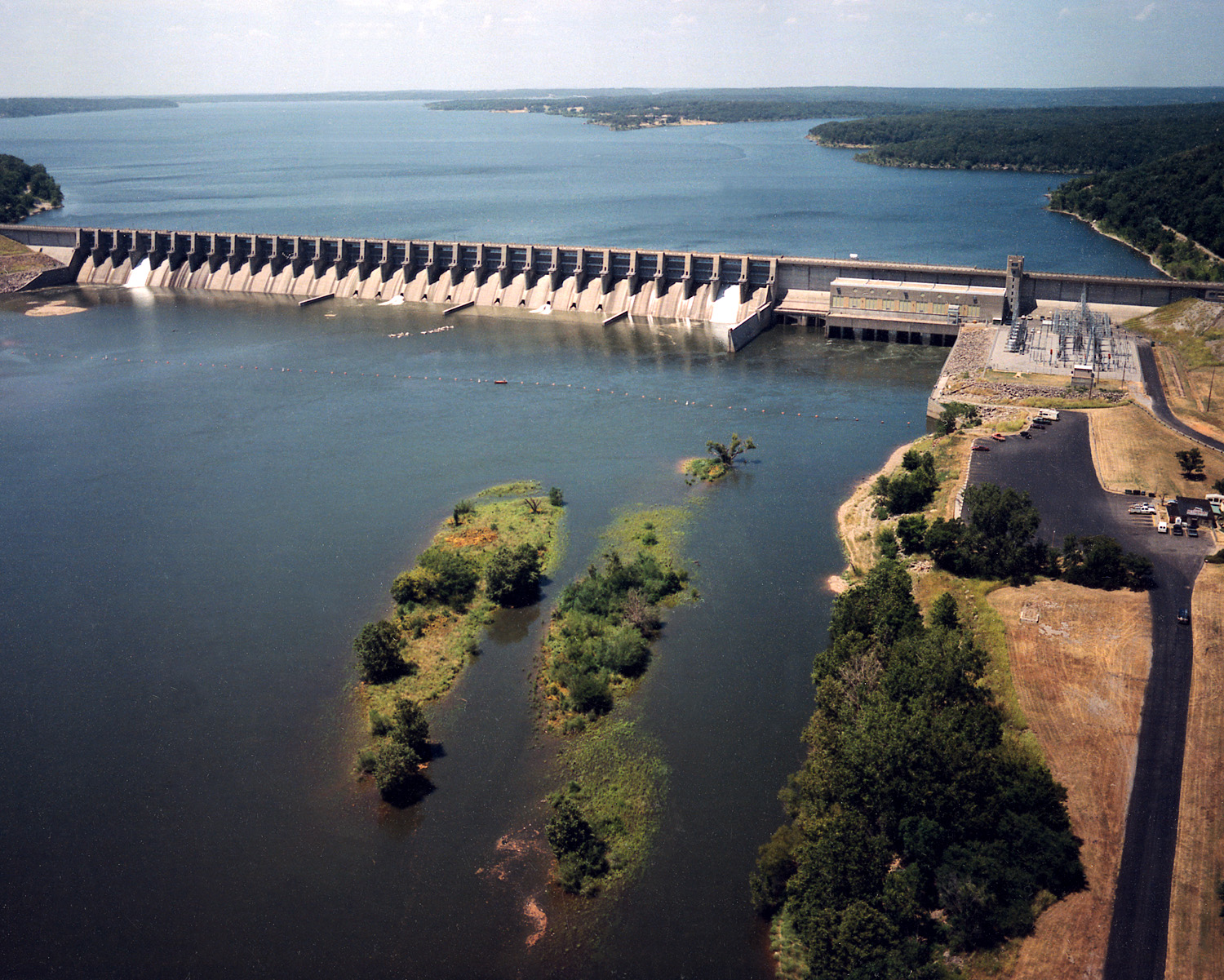 Aerial view of Fort Gibson Lake And Dam on the Grand River in Wagoner and Cherokee Counties, Oklahoma, USA Coordinates: 35°52′10.73″N 95°13′50.52″W / 35.8696472°N 95.2307°W